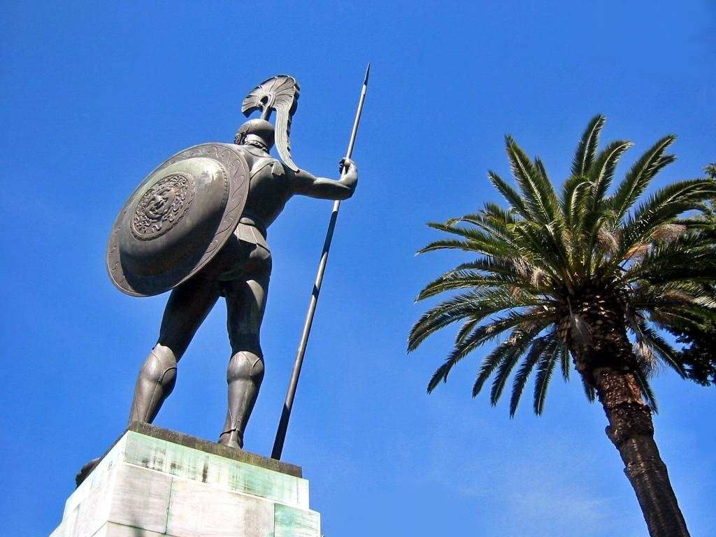 Sculpture of Achilles at Achilleion Palace, Corfu, Greece